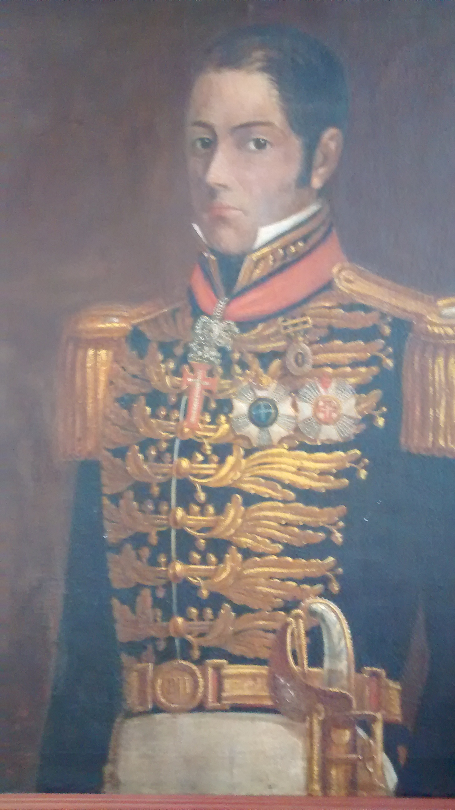 Viscount of Pirajá. Portrait from IGHB.